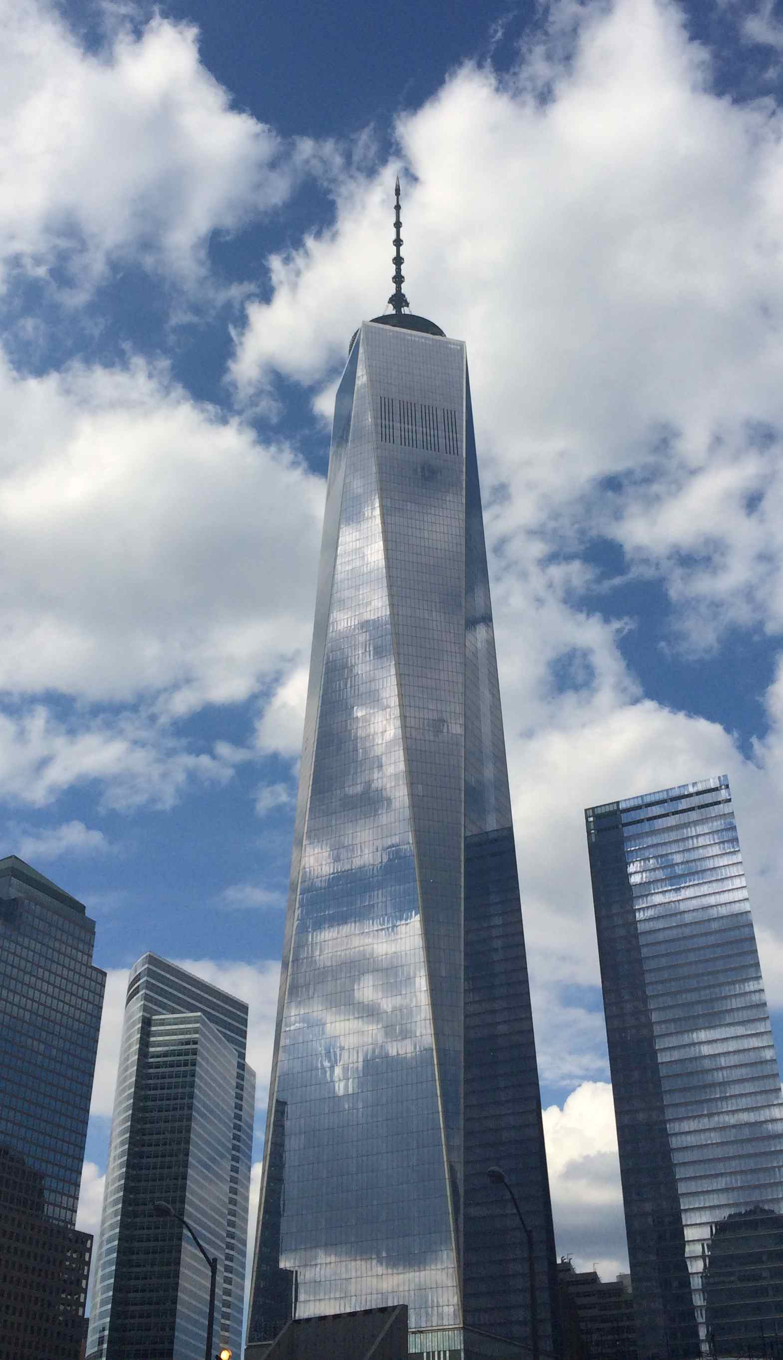 Freedom Tower, NYC